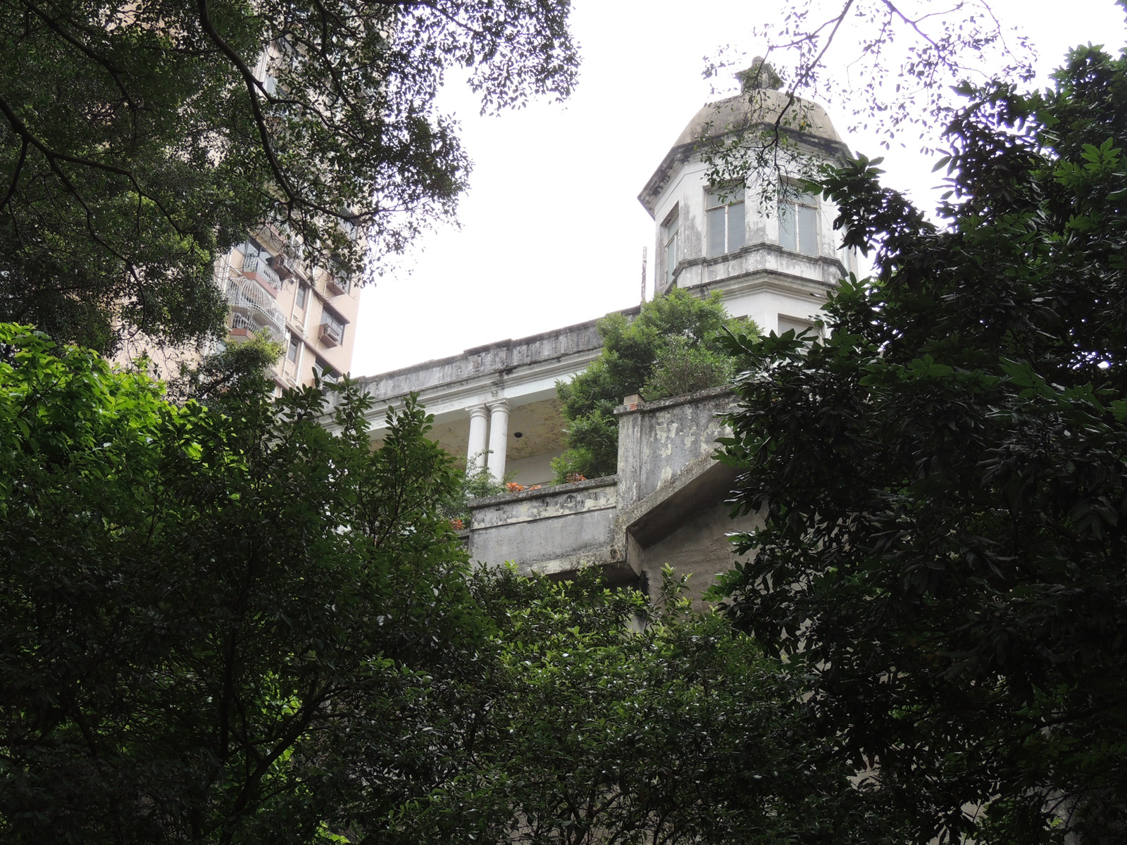 No. 64 Kennedy Road, Wan Chai